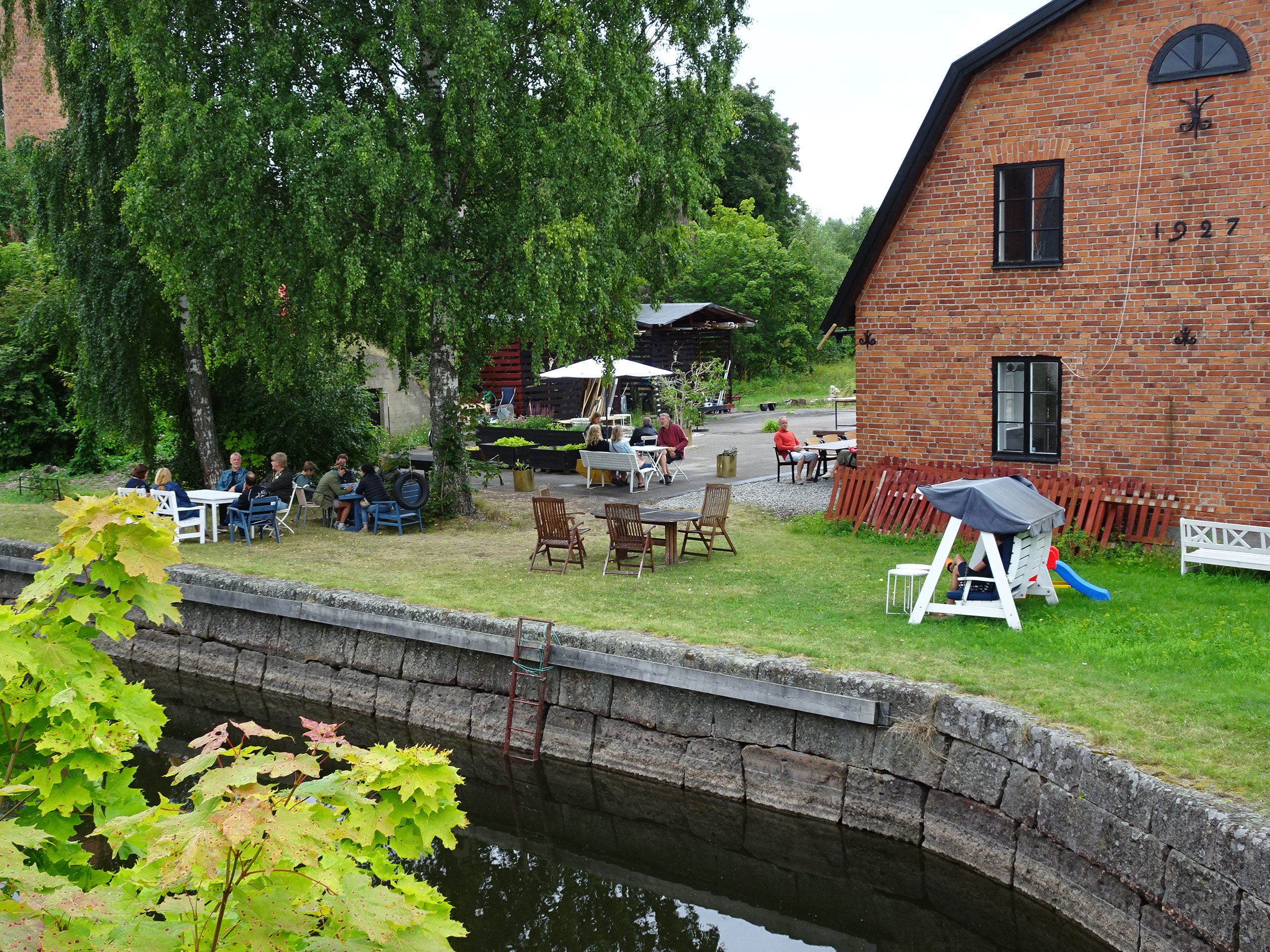 Summer café of Mikael Genberg 2017, close to the Strömsholms canal i Virsbo, Sweden.